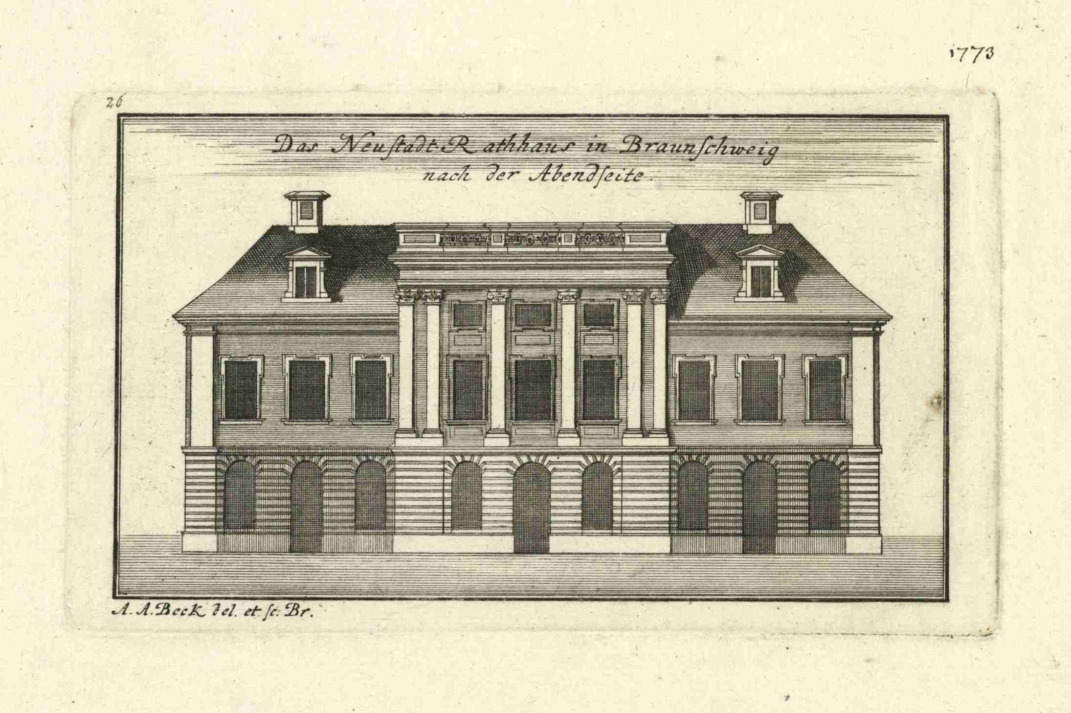 Braunschweig, Germany: Neustadt Town Hall.